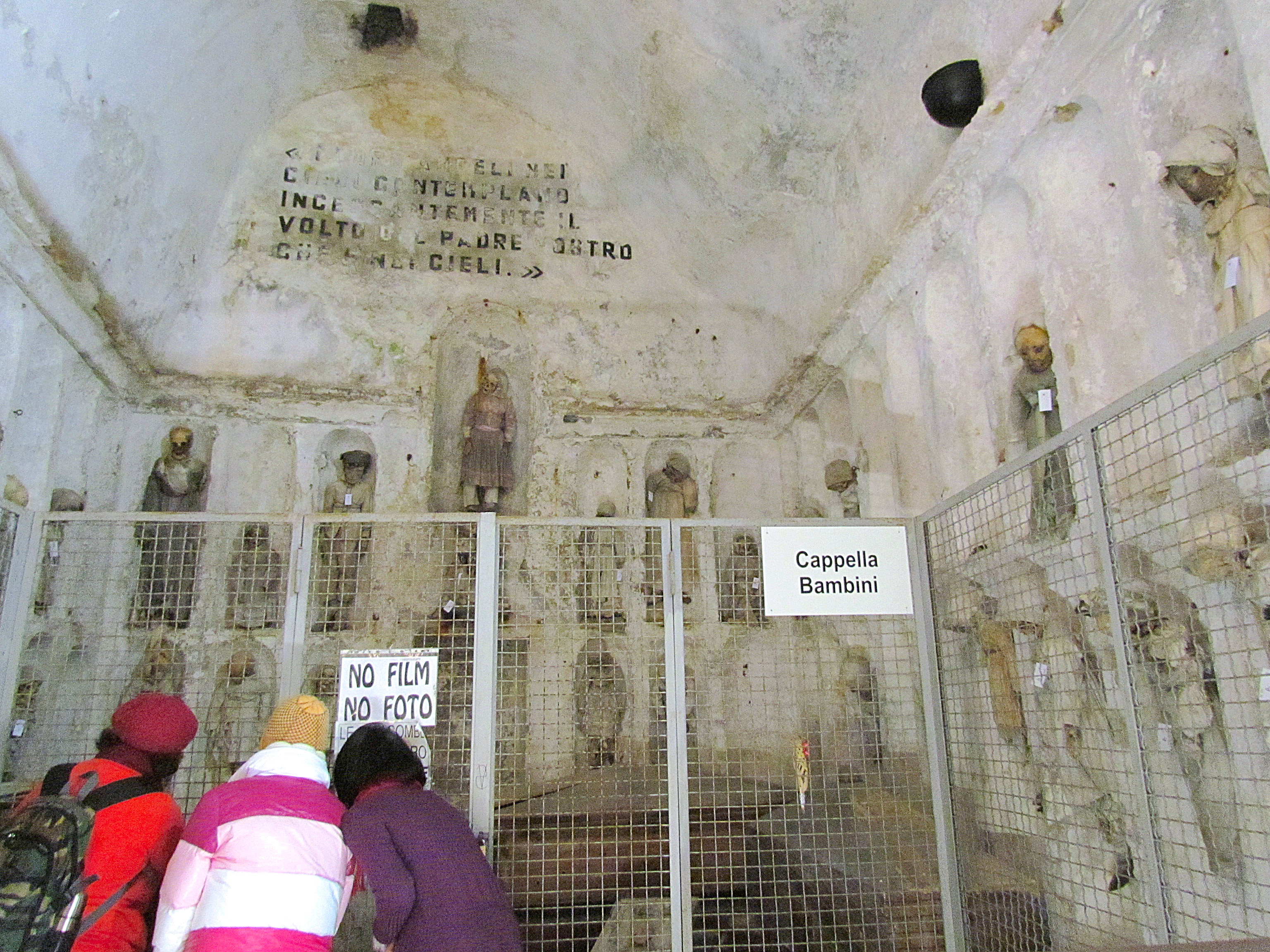 Hall of Children, Capuchin catacombs (Palermo)